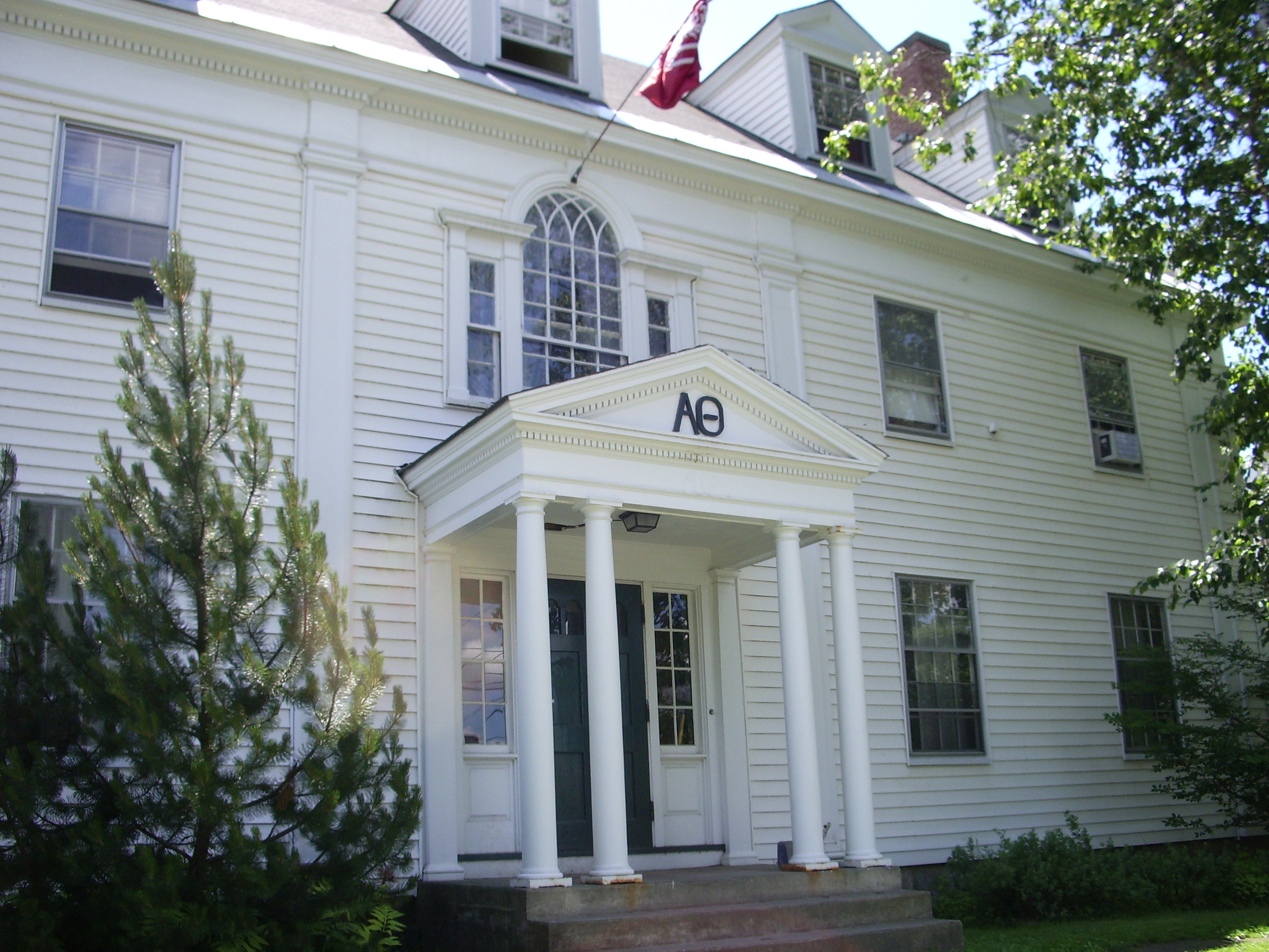 Photograph of Alpha Theta at the campus of Dartmouth College in Hanover, New Hampshire.